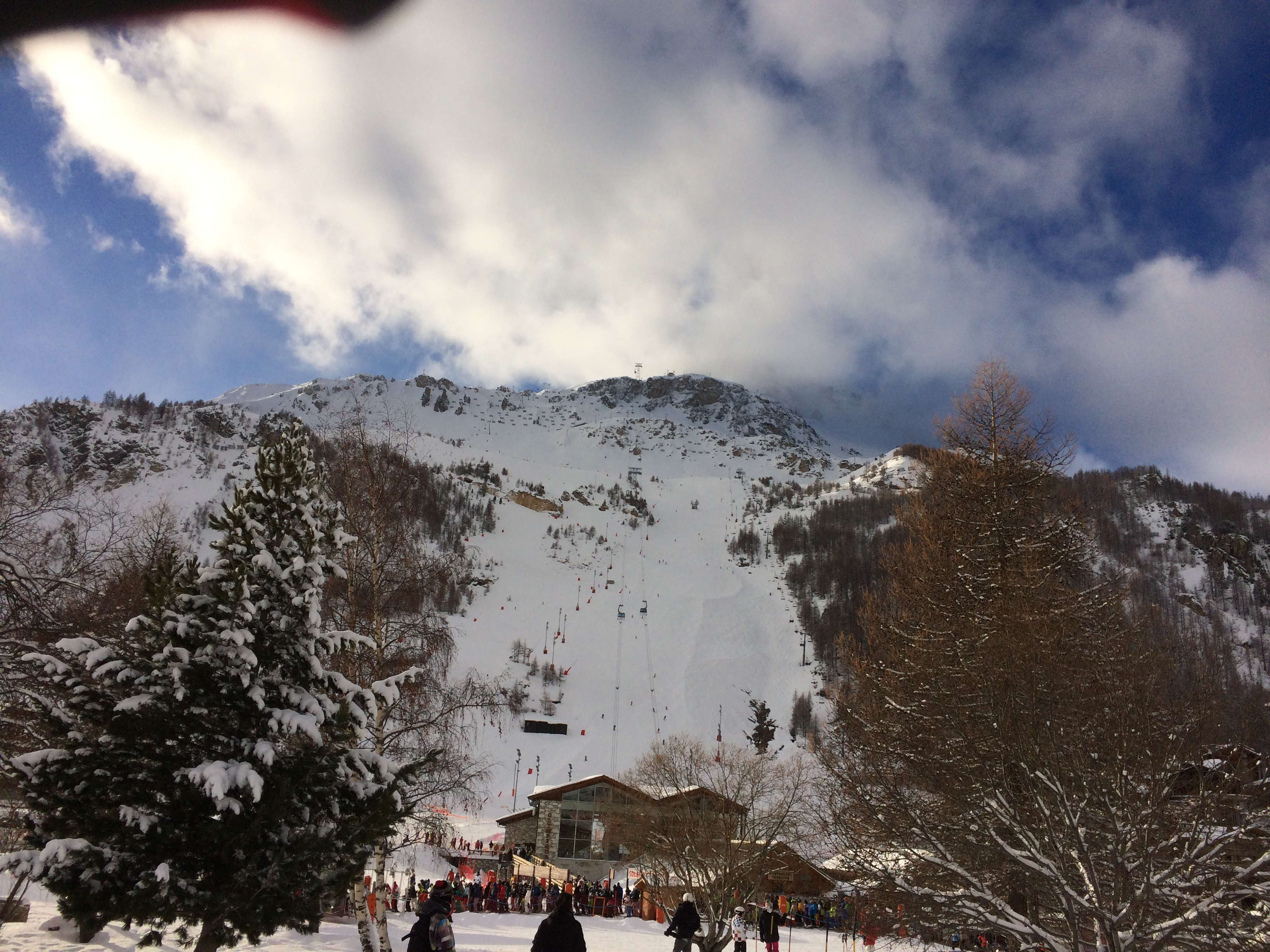 The Face de Bellevarde in Val d'Isère seen from the center of the ressort